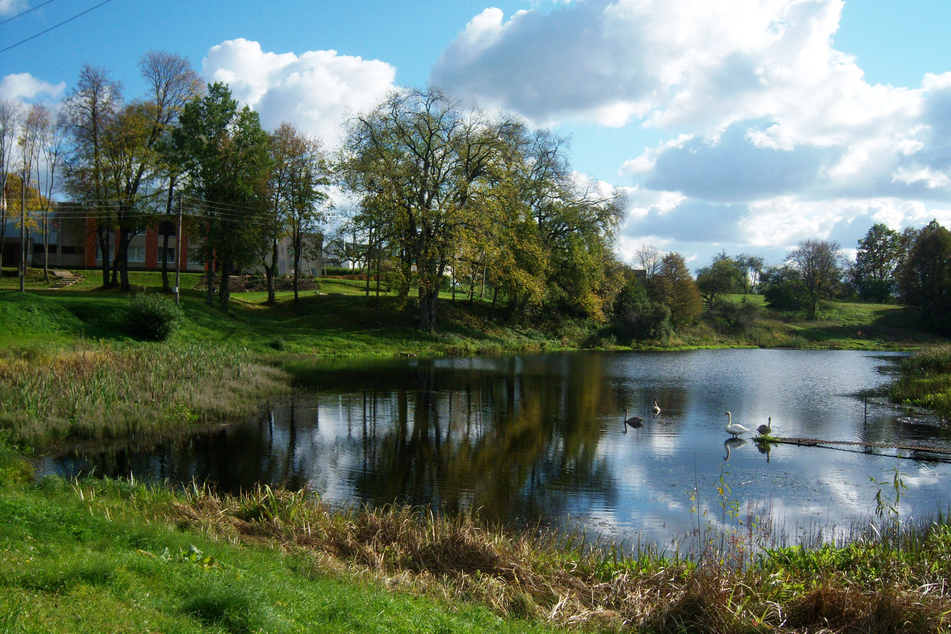 Pond in Užusaliai, Jonava District, Lithuania